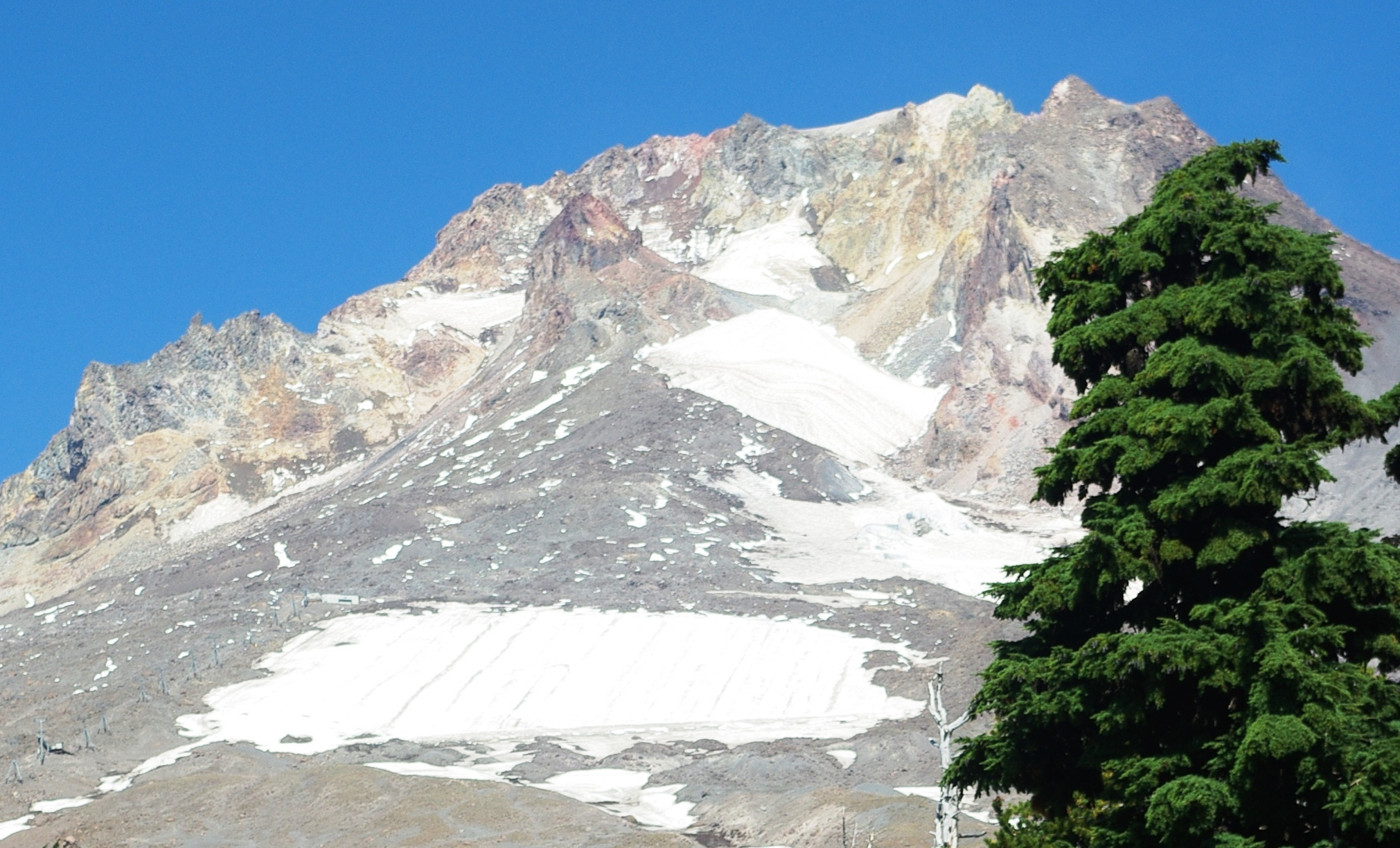 Mount Hood in Oregon, USA.